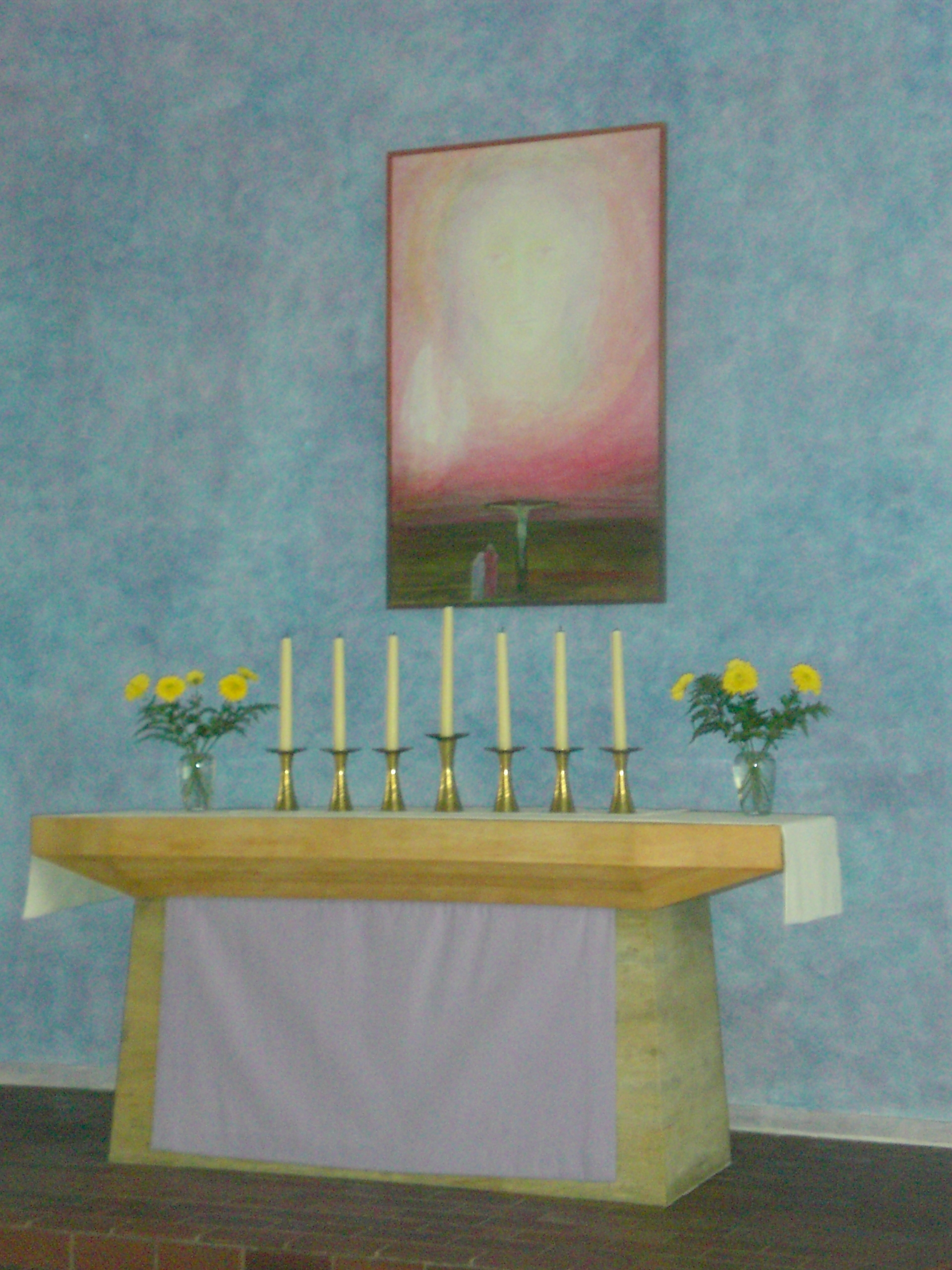 The Christian Community, Raphael Church in Darmstadt, Germany